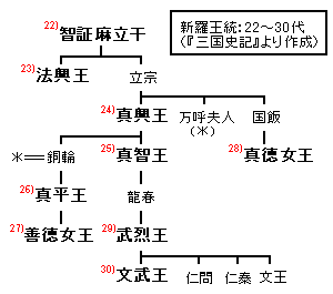 the geneology of Silla( 22nd King ~ 30th King) / 新羅王系図(22代～30代)